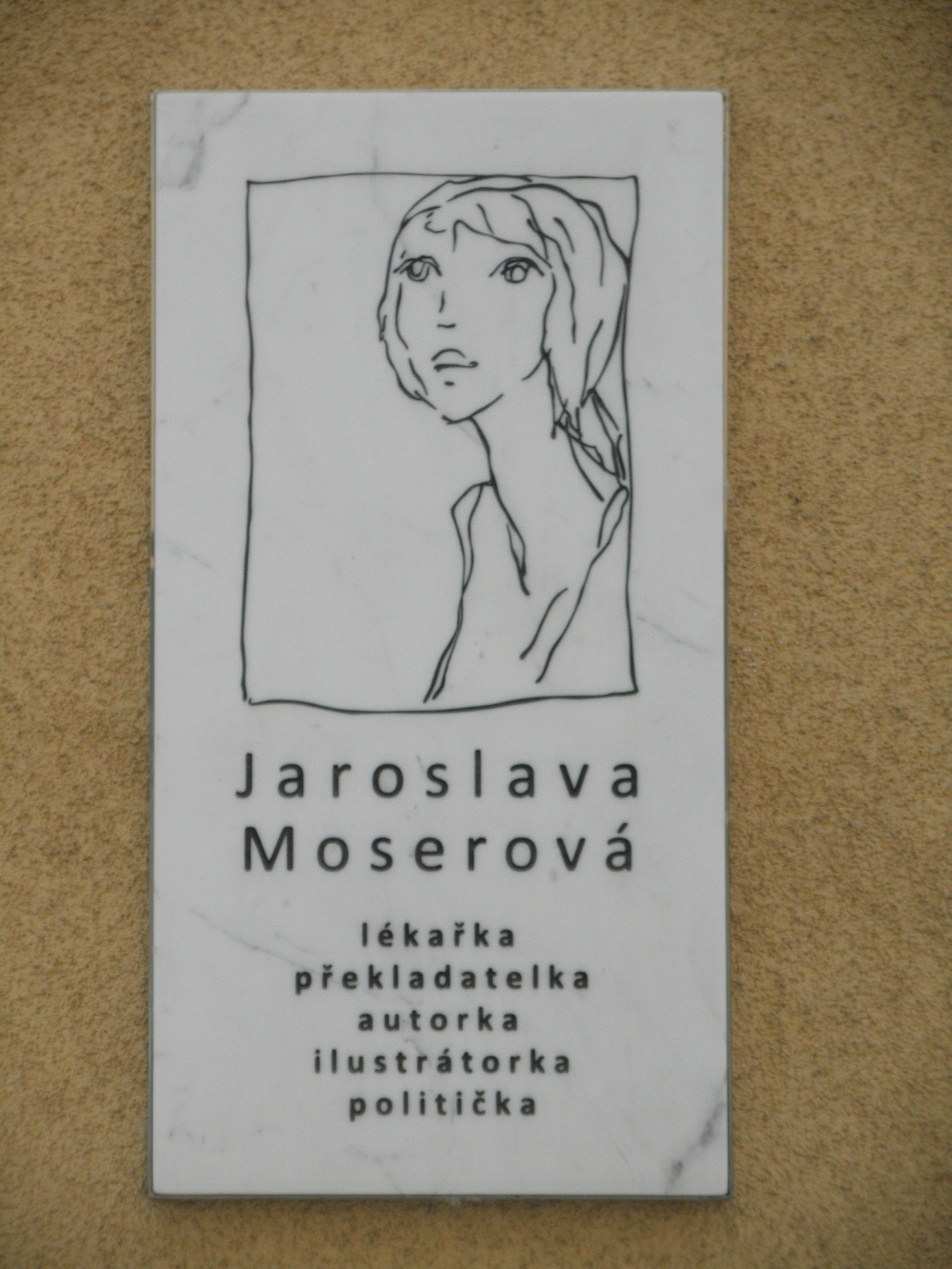 Photo of a memorial plaque of Jaroslava Moserová at the here-worked building 95 třída Míru street in Pardubice. The plaque was made by Karel Krátký of Carrara marble.